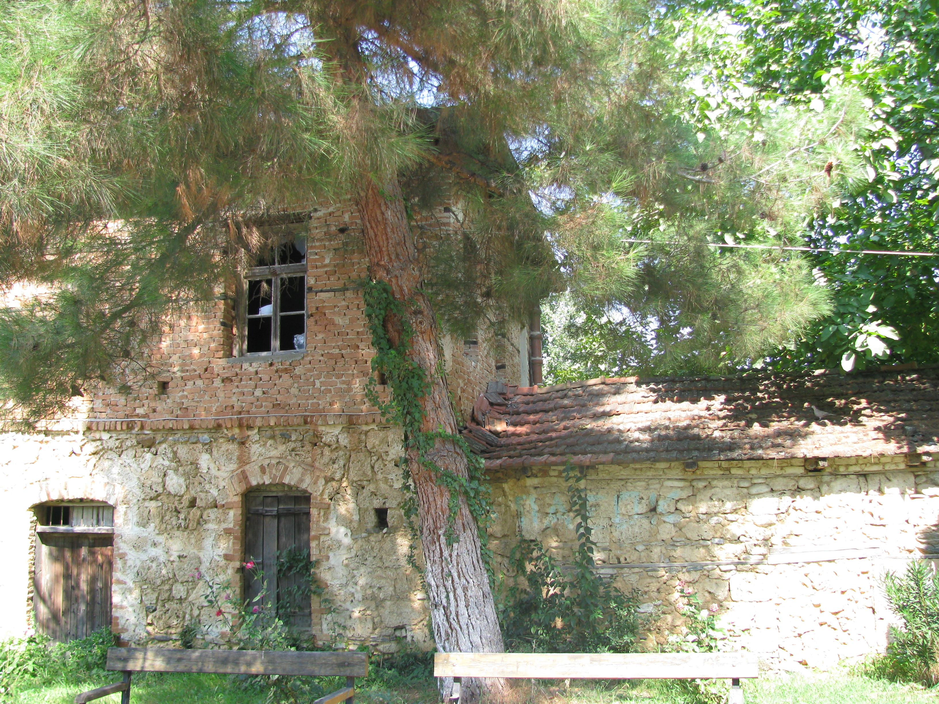 House in Yavoryani or Platani, Pella prefecture, Greece